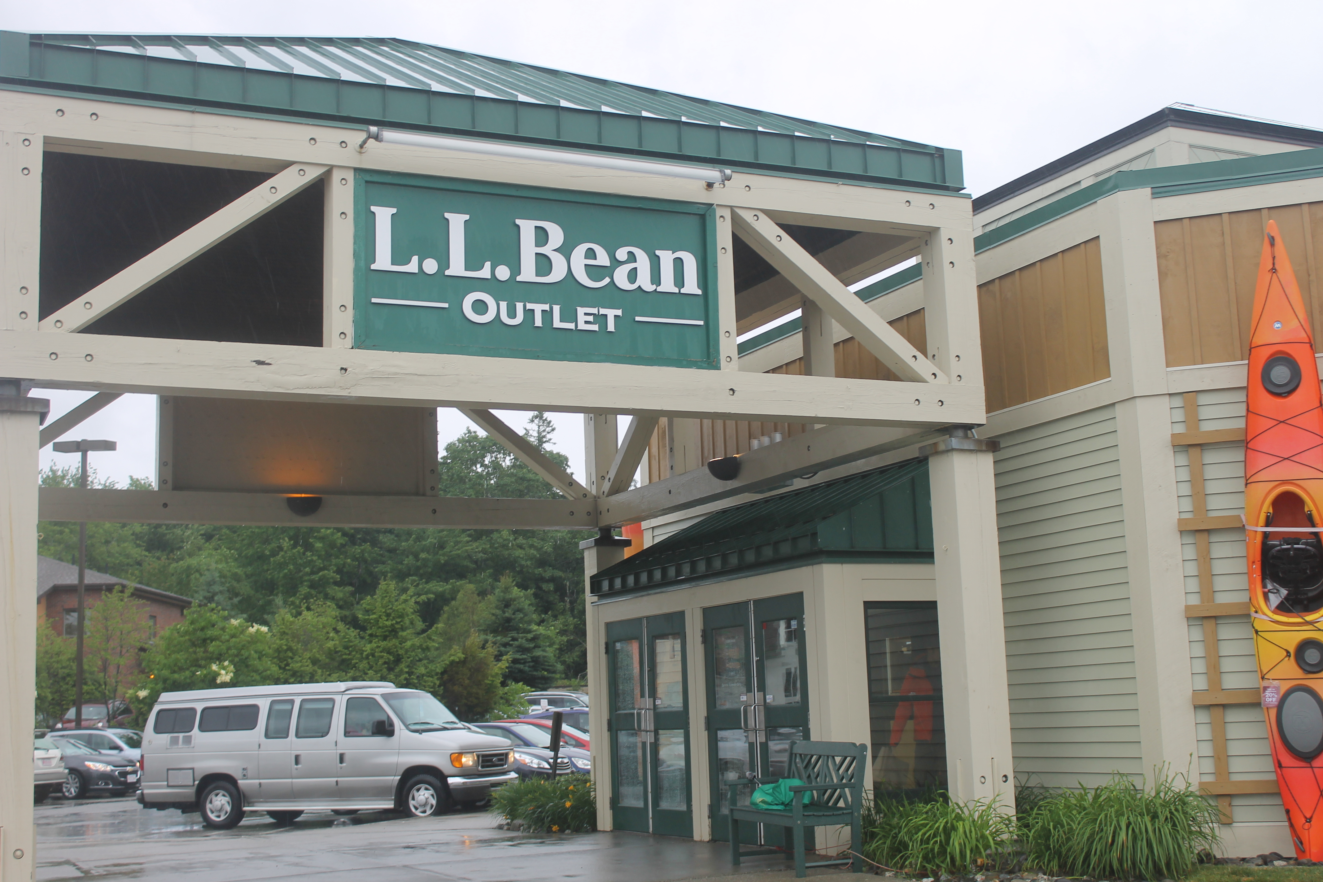 It took photo with Canon camera of L. L. Bean Outlet in Ellsworth, ME